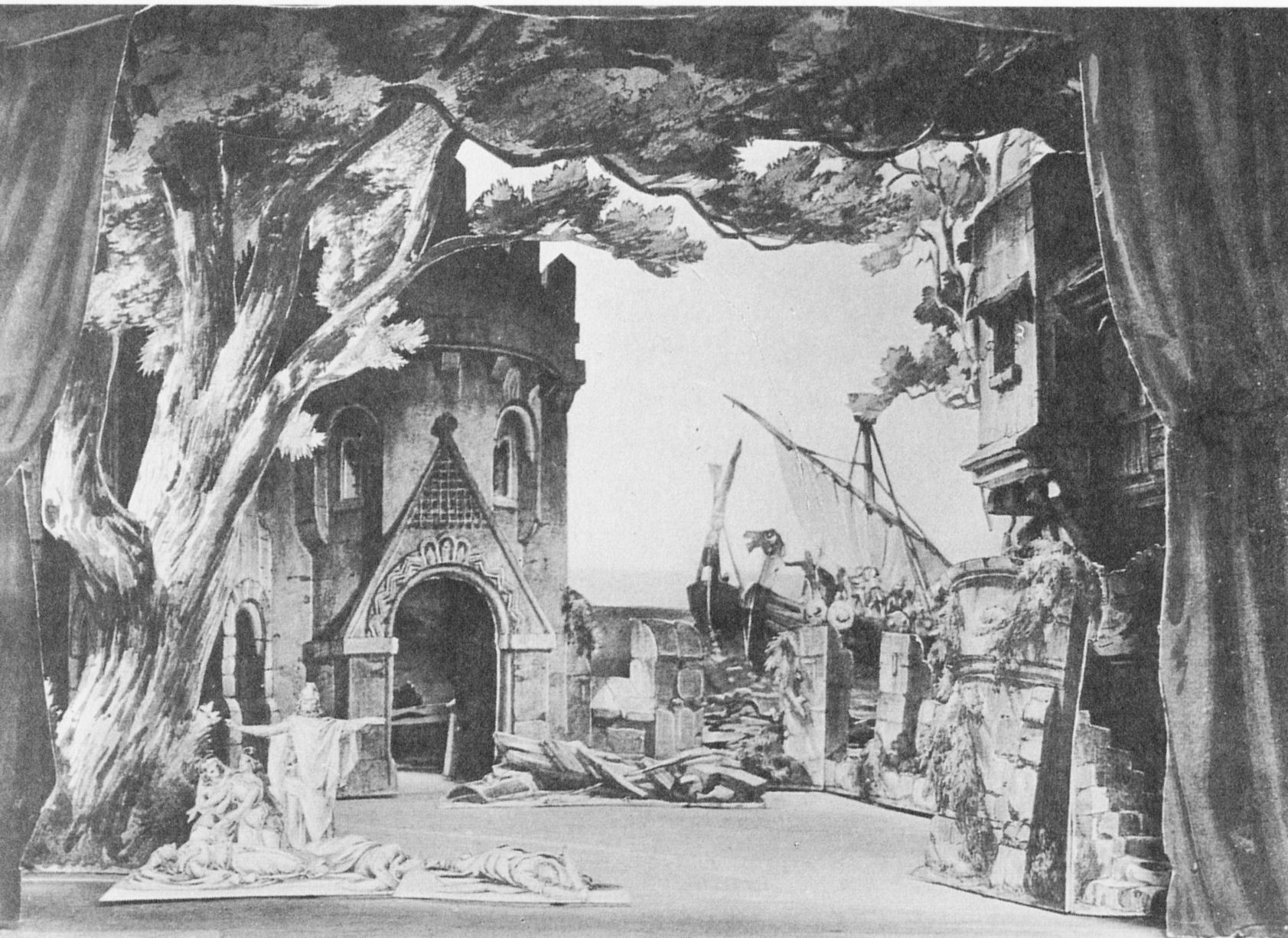 3-dimensional model by Angelo Quaglio for the set in act 3 at the premiere production of Richard Wagner's Tristan und Isolde on 10 June 1865 in Munich